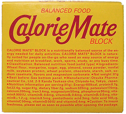 The Calorie Mate energy suplement block.